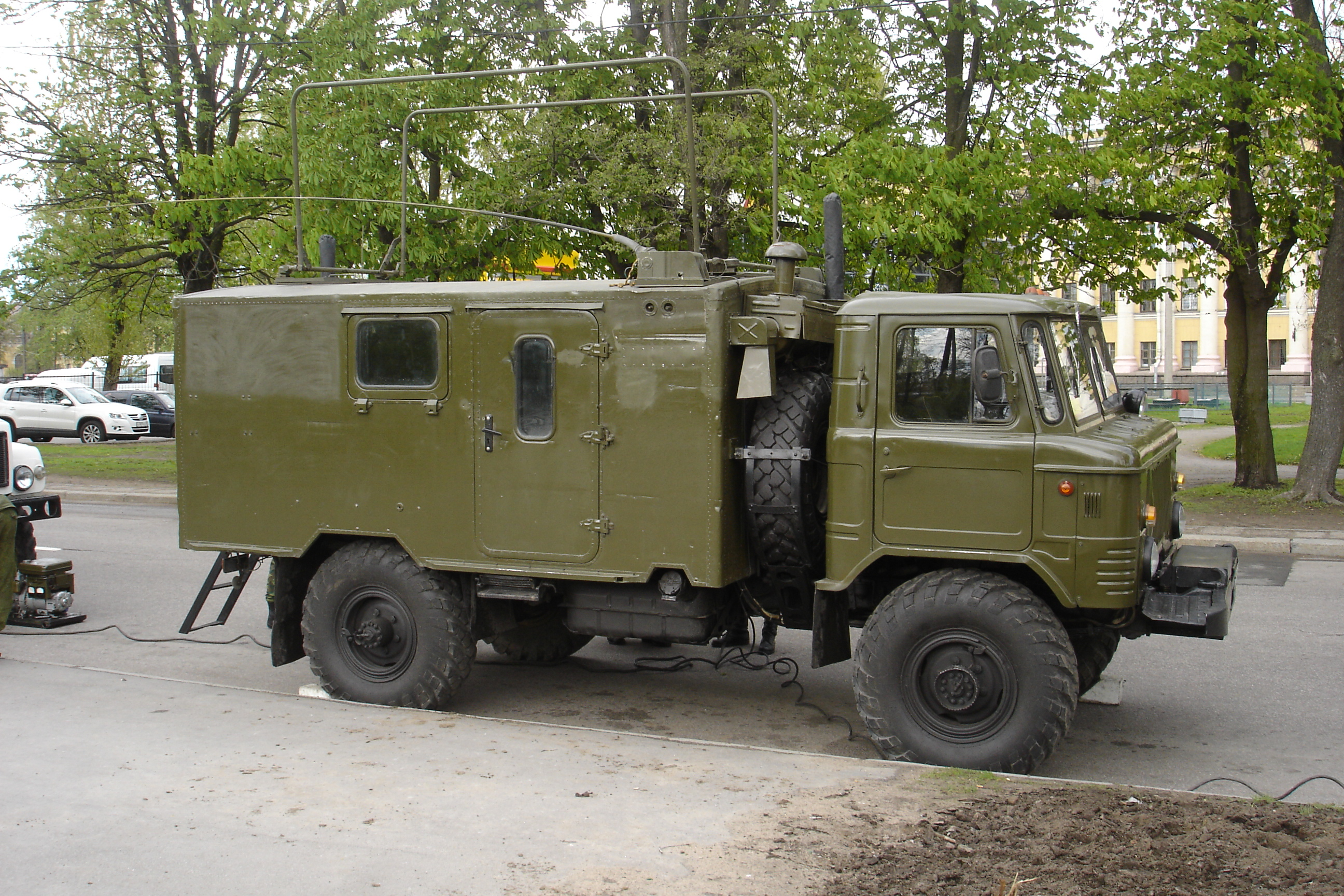 GAZ-66 truck in Russian military service, used as a communication centre. Saint-Petersburg, near Sportivnaya metro station.